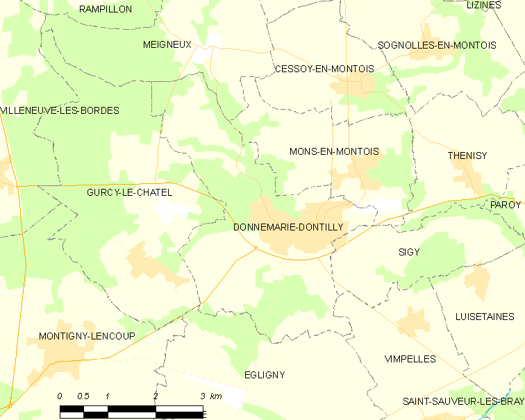 Map of French municipality Donnemarie-Dontilly